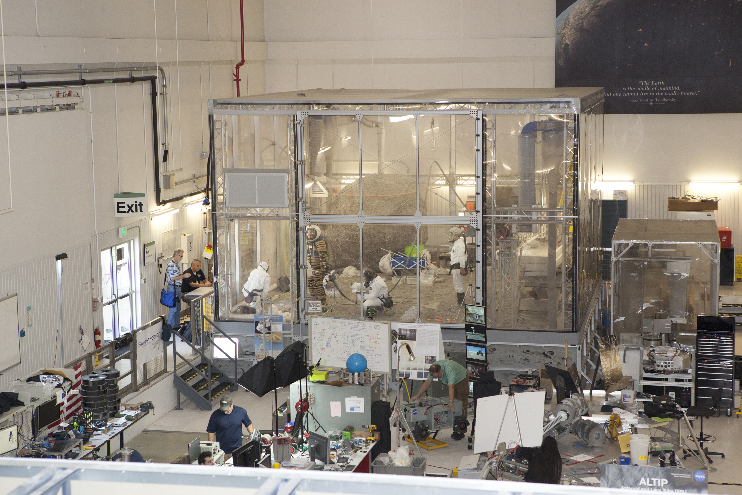 View inside the NASA KSC Swamp Works showing the regolith test bin Researchers work inside and outside the regolith bin at Kennedy Space Center's SwampWorks during testing of spacesuit design elements. The in features simulated soil astronauts would be working with on other worlds.